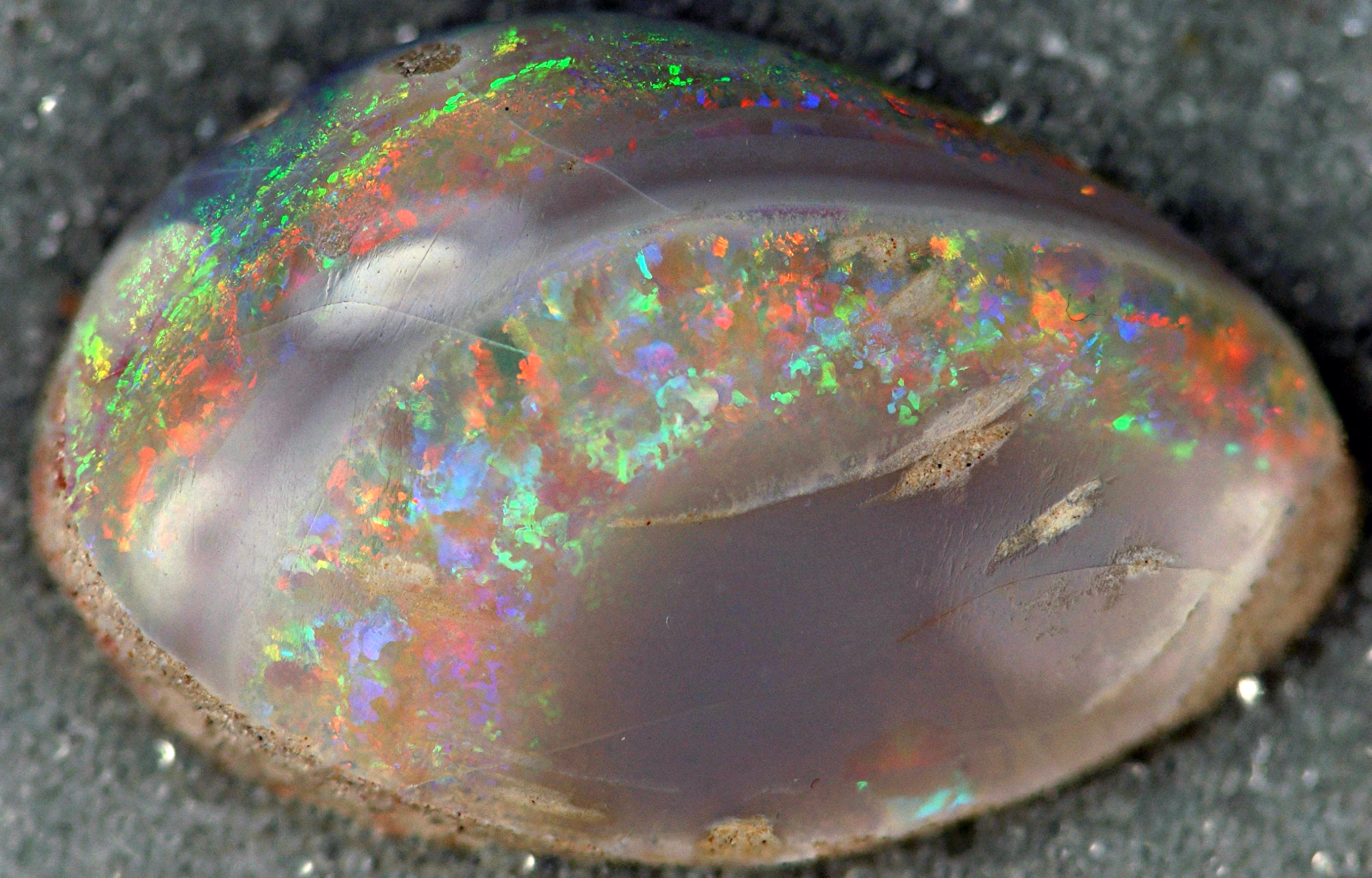 Opalized bivalve from the Coober Pedy Opal Field, South Australia. The Coober Pedy area of southern Australia is world-famous for its high-quality precious opal (= hydrous silica - SiO2·nH2O). Some of the opal at Coober Pedy (pronounced “koober peedee”) has replaced fossil skeletal material. Most of the opalized fossils here are various marine bivalve (clam) species, but Coober Pedy opal replaces other fossil remains as well (for example, snails, belemnites, crinoids, ichthyosaurs, and plesiosaurs). Even soft parts have been preserved & replaced by opal (Kear, 2006). The specimen shown here is a polished fossil clam that may be assignable to Cyrenopsis (?) (Animalia, Mollusca, Bivalvia, Heterodonta, Veneroida, Arcticaceae, Neomiodontidae). Locality: unrecorded mine field in Coober Pedy Opal Field, north-central South Australia State, southern Australia. Stratigraphy: “weathered zone” of the Bulldog Shale, lower Marree Subgroup, Aptian Stage, upper Lower Cretaceous. Reference cited: Kear, B.P. 2006. Marine reptiles from the Lower Cretaceous of South Australia: elements of a high-latitude cold-water assemblage. Palaeontology 49: 837-856.